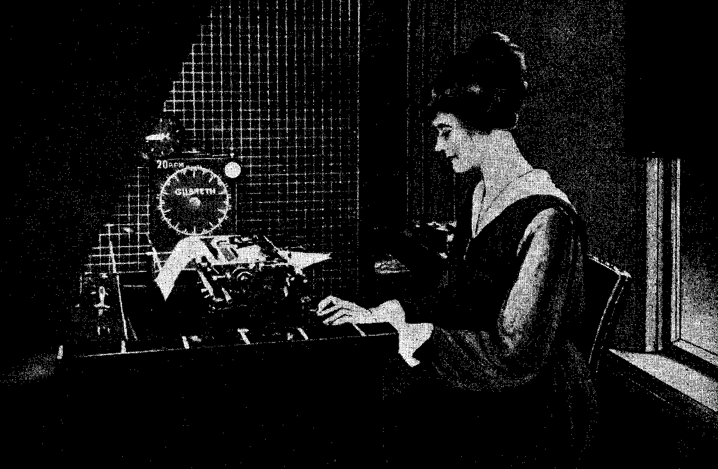 Typist at typewriter, Sweden, 1918